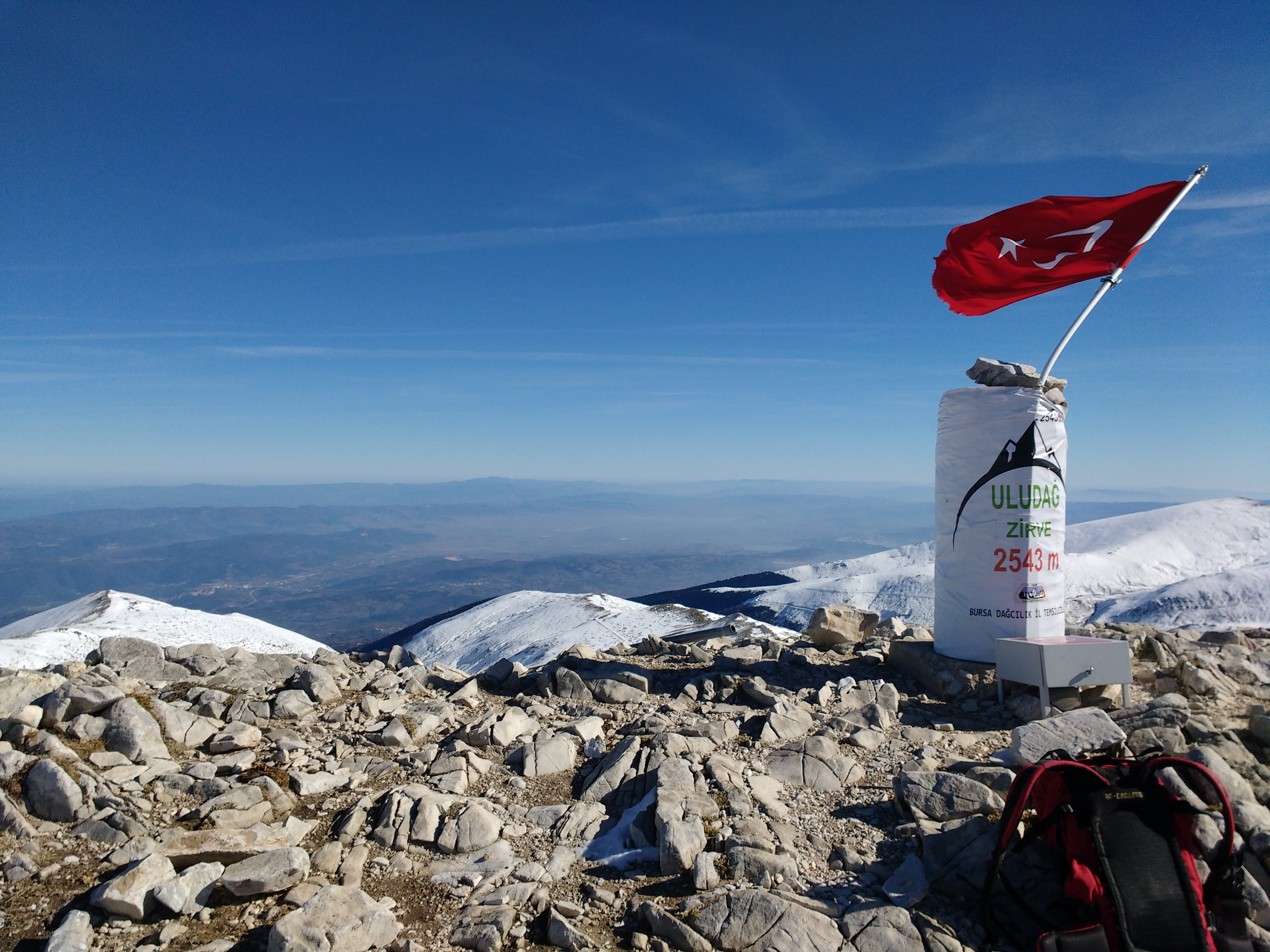 Top of the Uludaǧ mountain (2543m).